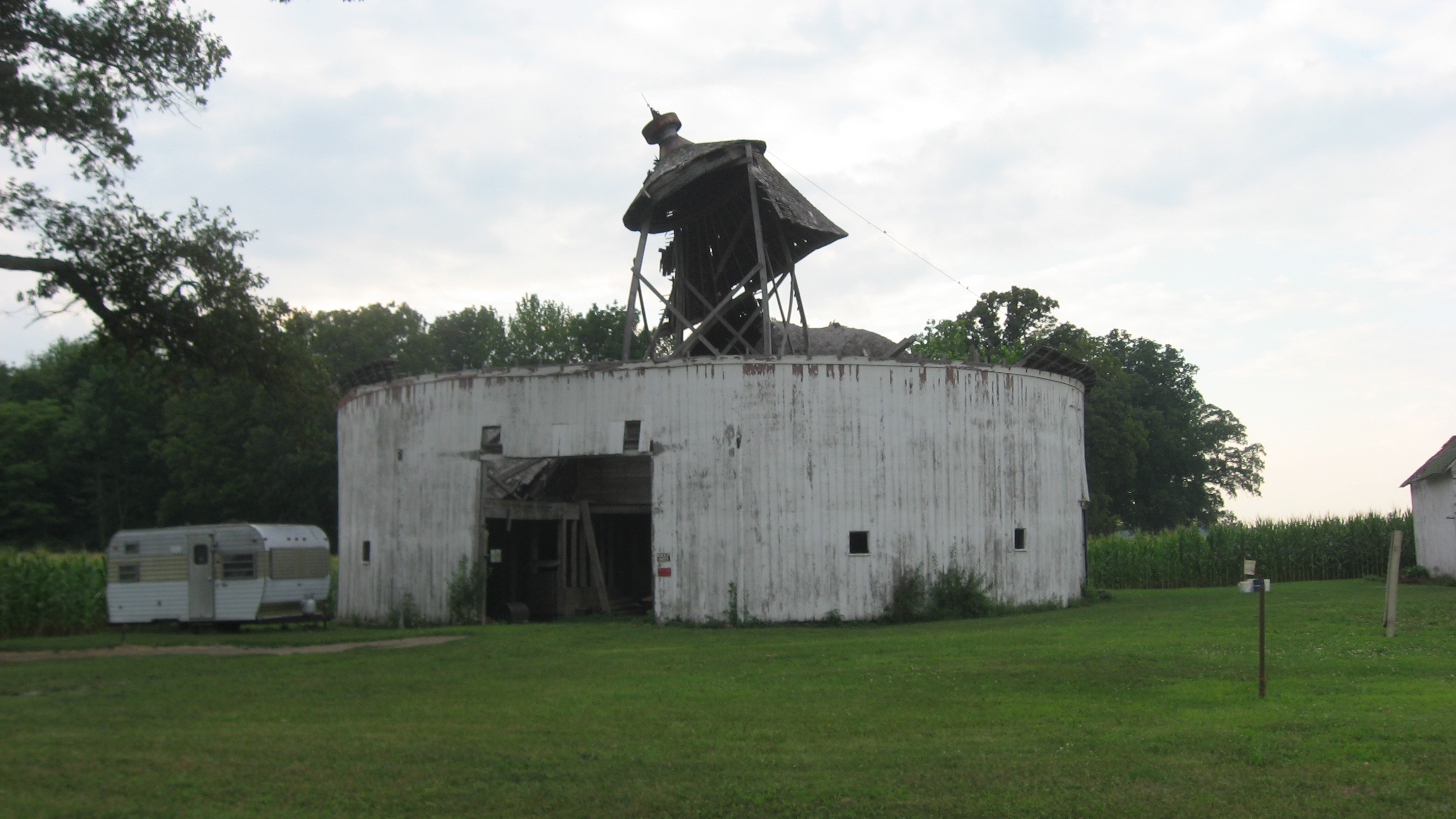 Front of the Clayton Hoover Round Barn, located along Brittsan Road west of Van Wert in Harrison Township, Van Wert County, Ohio, United States. Built in 1910, the barn is listed on the National Register of Historic Places.